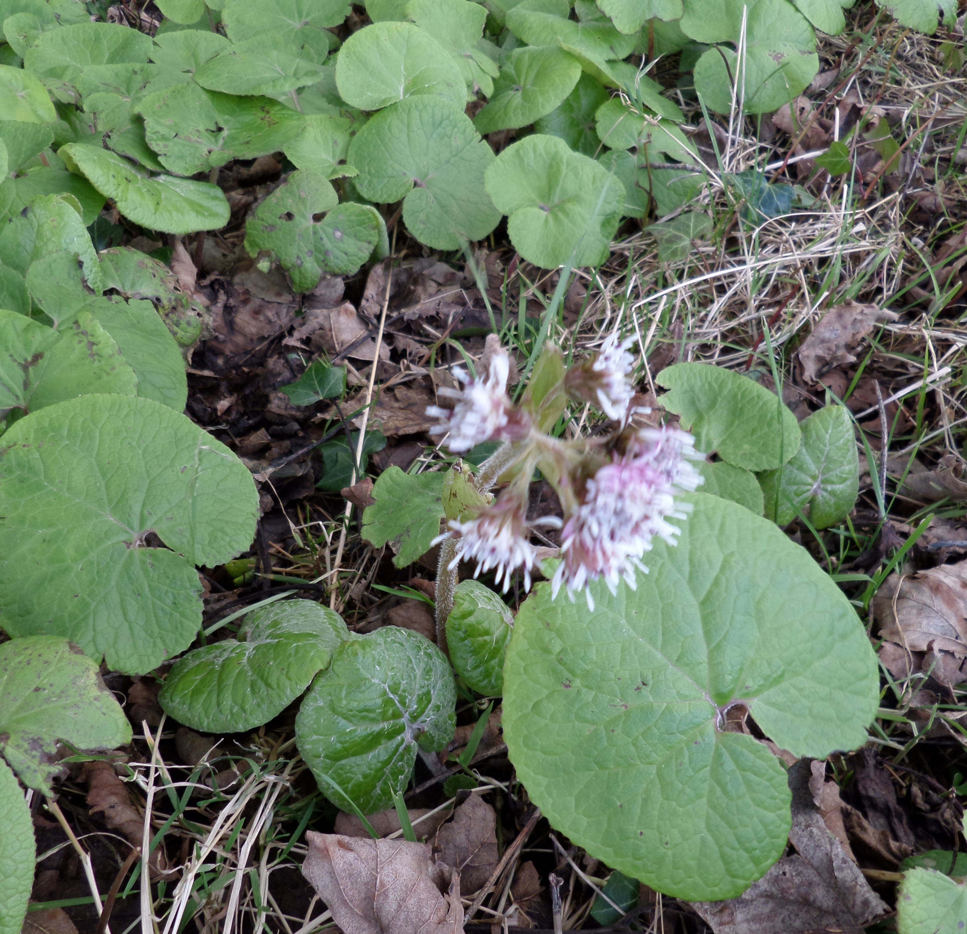 The Winter Heliotrope (Petasites fragrans) at Kirktonhall Glen, West Kilbride, North Ayrshire, Scotland.